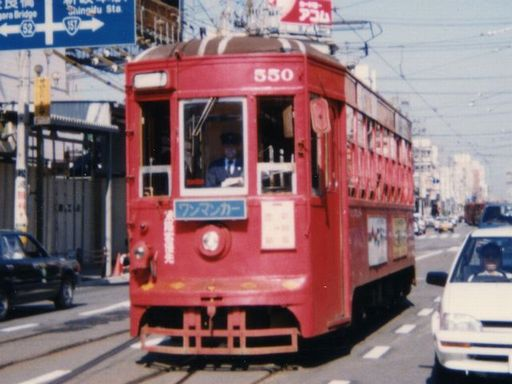 Nagoya Railroad EMU type 550 At Tetsumeicho Sta.